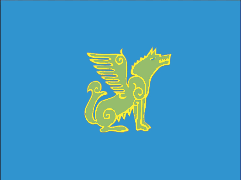 Flag of Nogay Tatars people, since